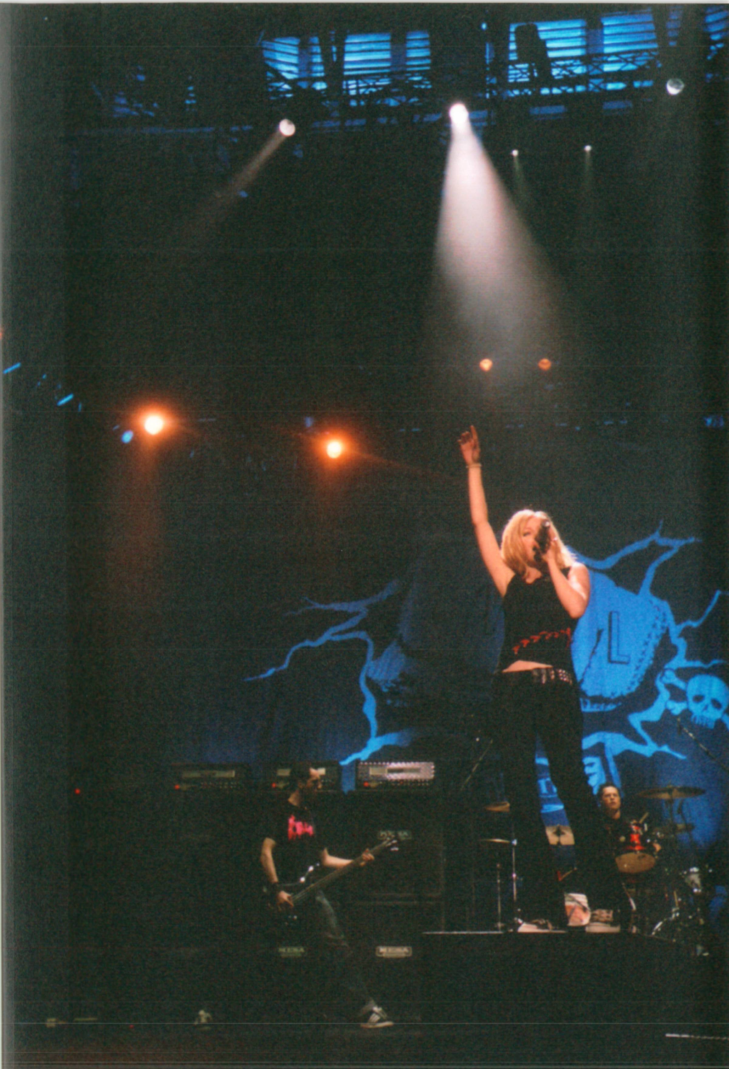 Avril Lavigne performing at the Copps Coliseum in 2005.